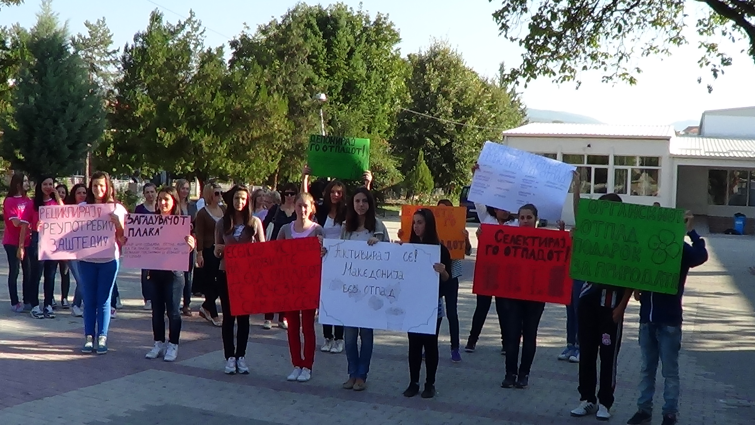 Еколошка активност „Македонија без отпад“ во СОУ Коста Сусинов - Радовиш